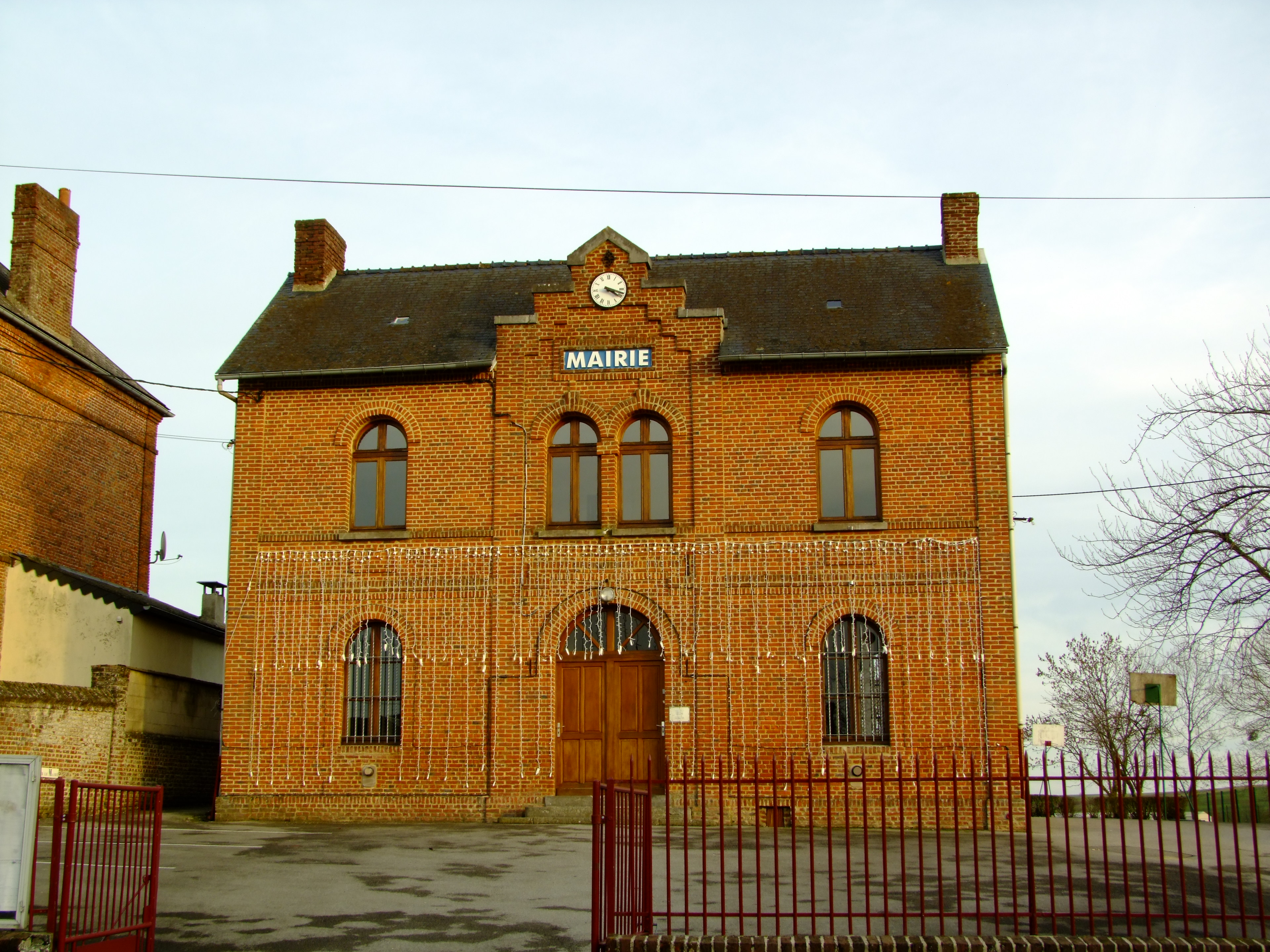 Town hall of Rougeries